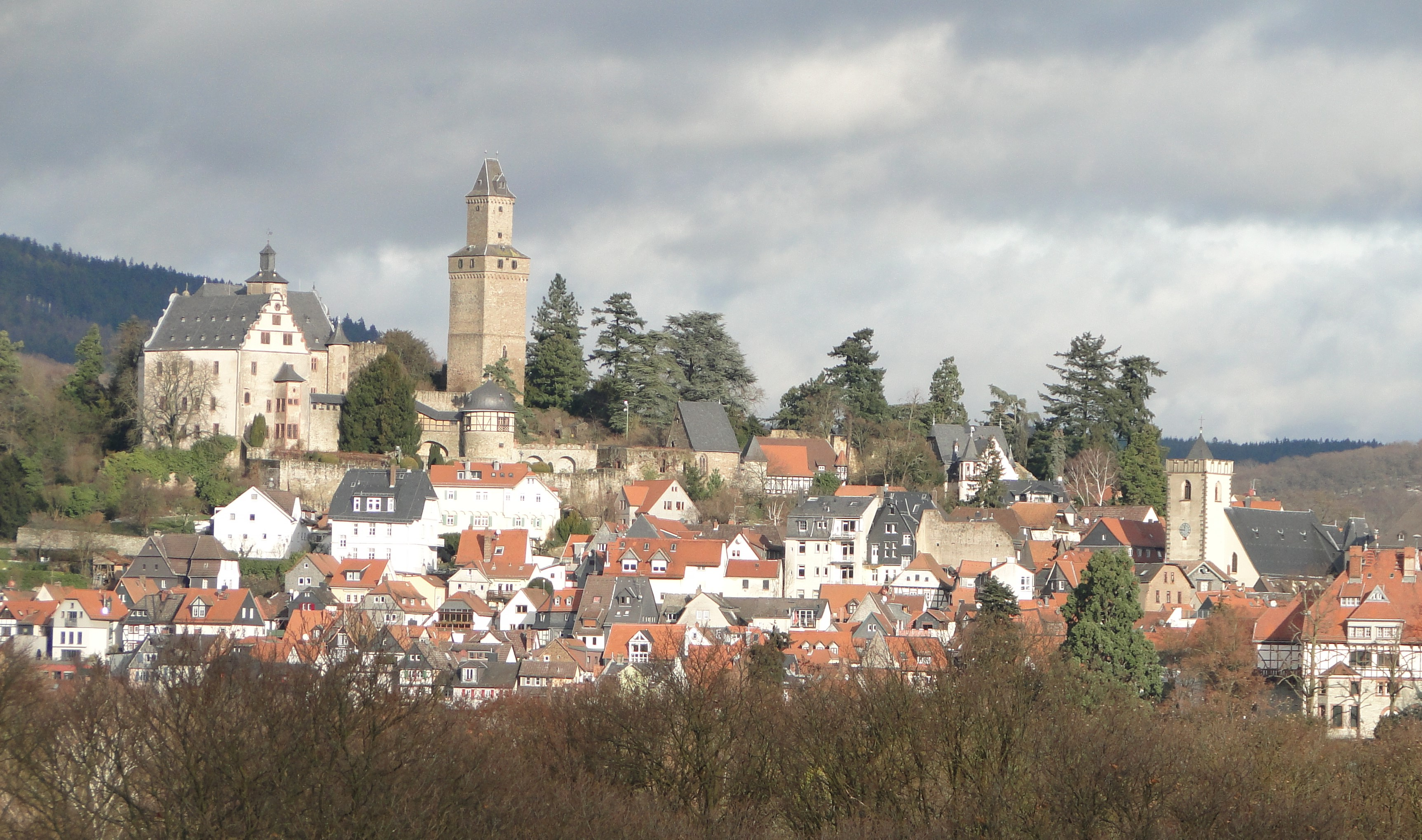 Historical center of Kronberg im Taunus, with castle and "Stadtkirche", St. Johann.